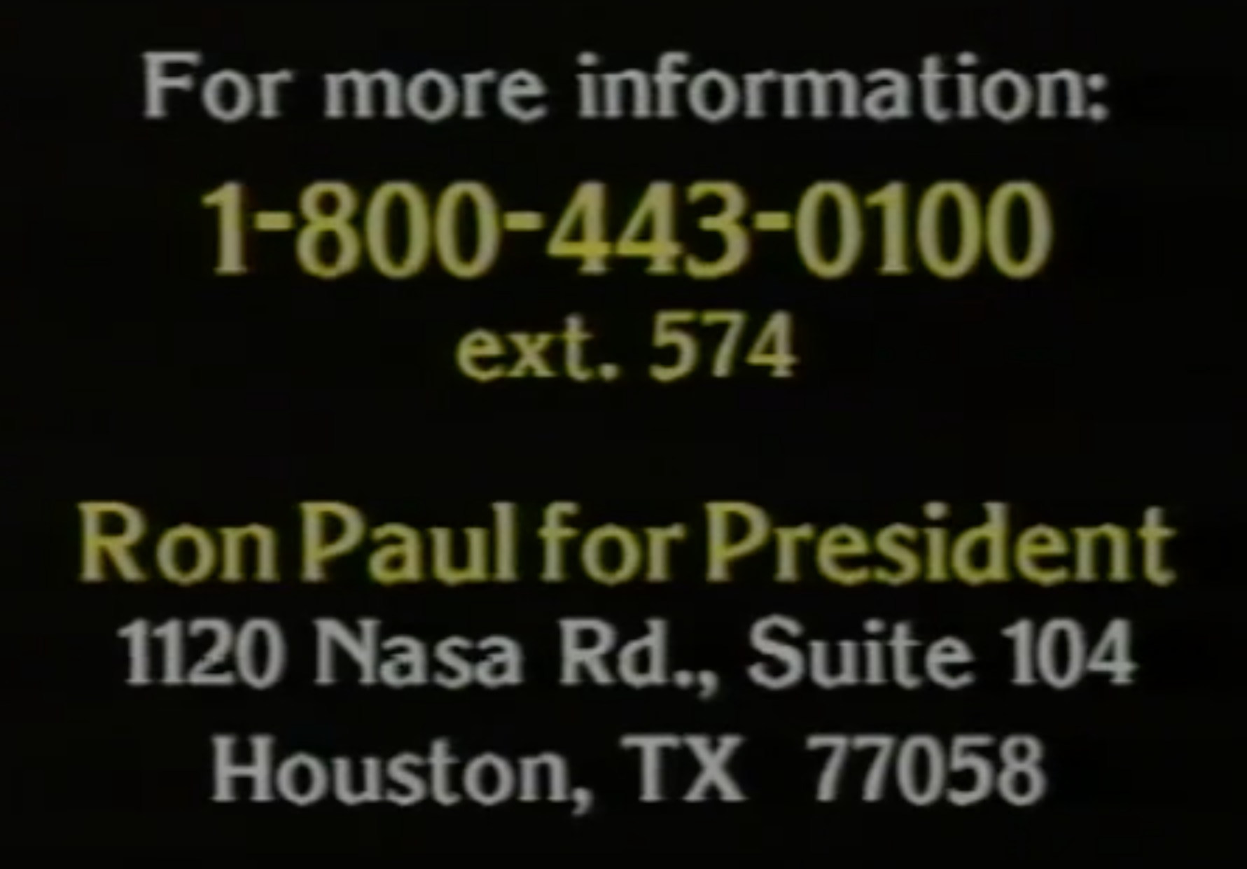 Libertarian Campaign TV ad